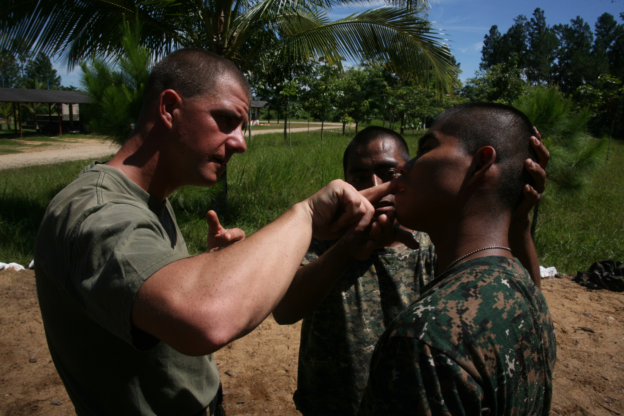 Staff Sgt. Shawn R. Conti, a Marine Corps Martial Arts instructor with Special-Purpose Marine Air-Ground Task Force Continuing Promise 2010, teaches Guatemalan Regular Army troops, proper muscular gouging techniques aboard Poptun Training Camp in Poptun, Guatemala, Sept. 6. Marine Corps Martial Arts Program instruction was given to the Guatemalan soldiers in relevance to non-lethal weapons techniques for crowd control and rapid and effective distribution of relief supplies in the event of a disaster relief operation.